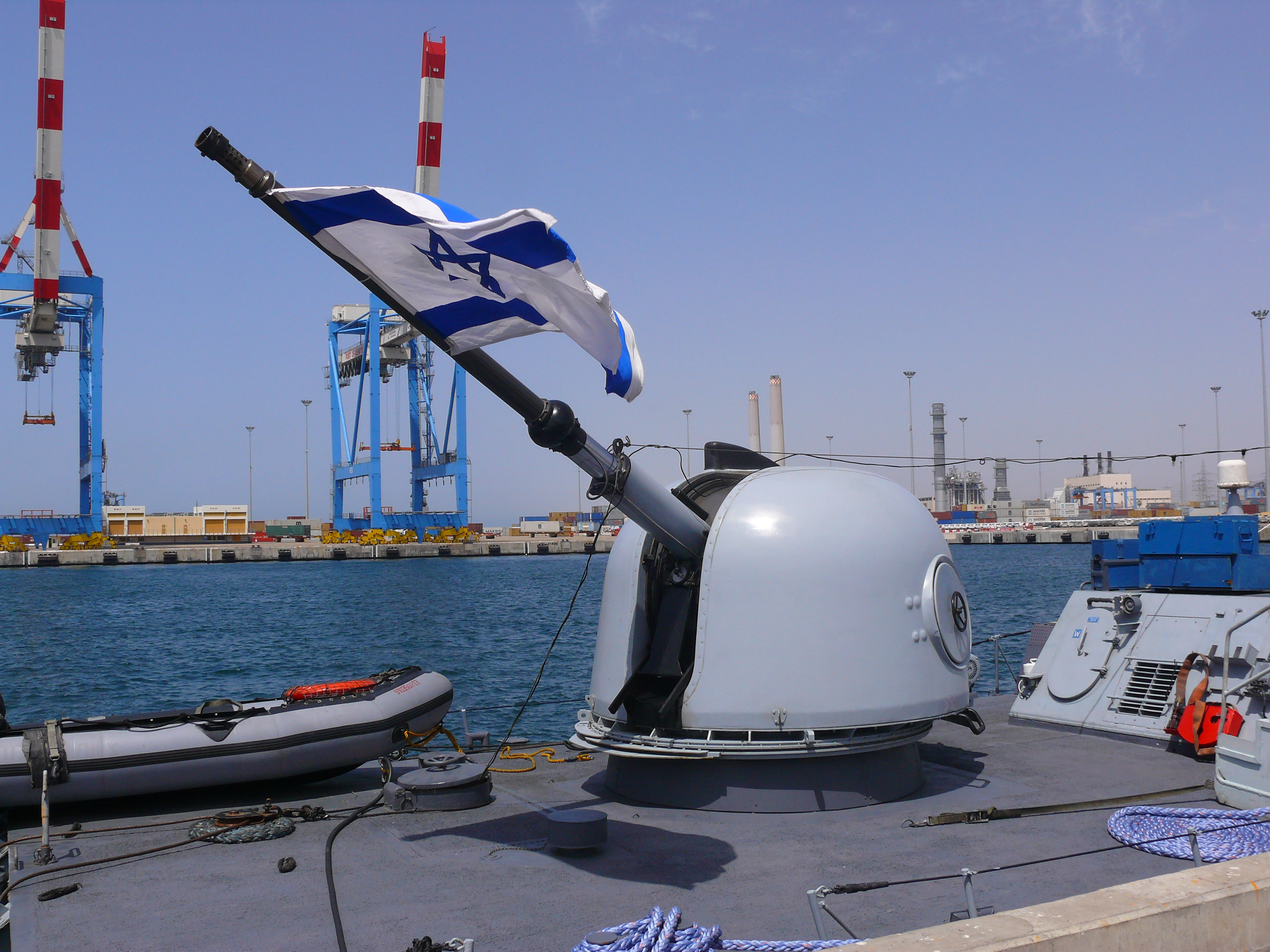 Oto Melara 76 mm gun on INS Tarshish